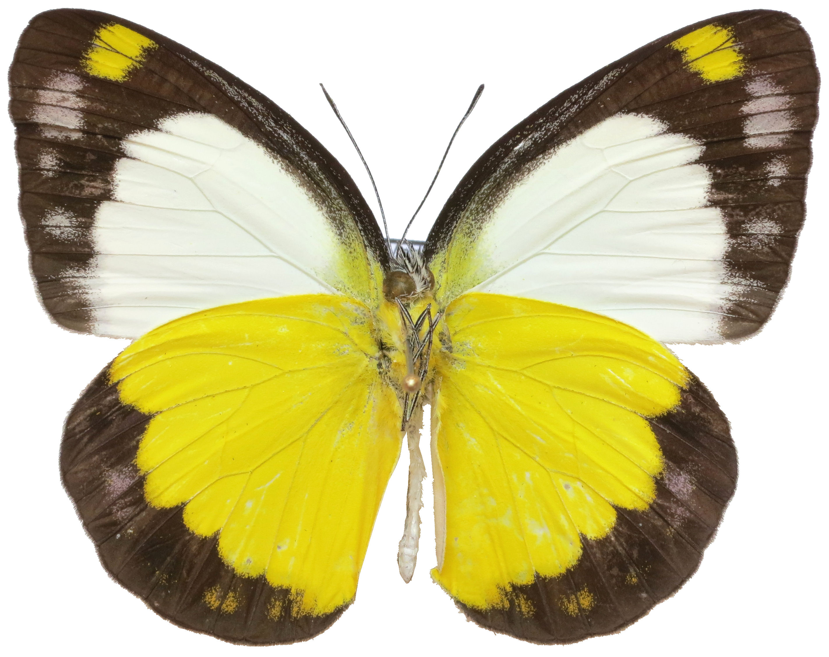 Cepora boisduvaliana boisduvaliana male Panay Island, Philippines October 2018